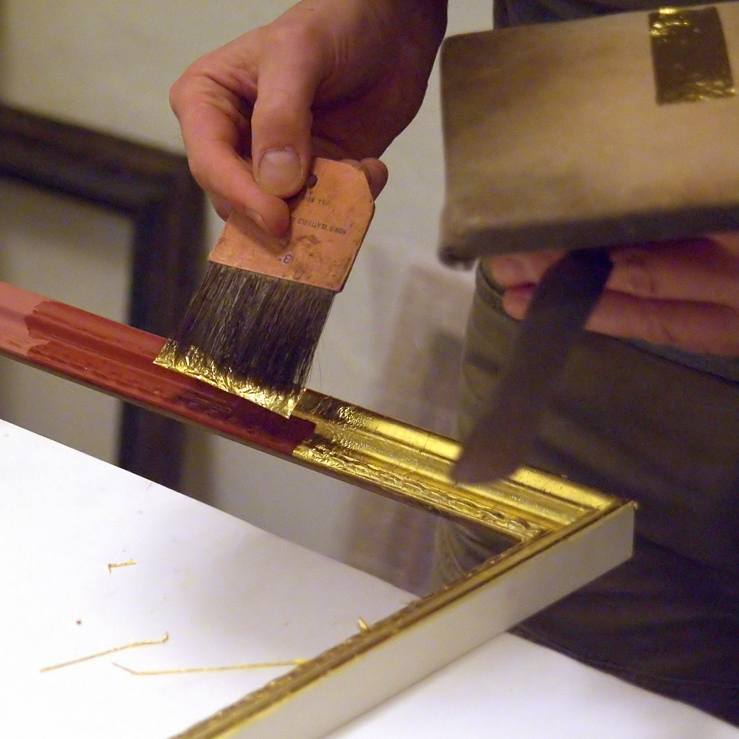 Gilder at work on a picture frame.